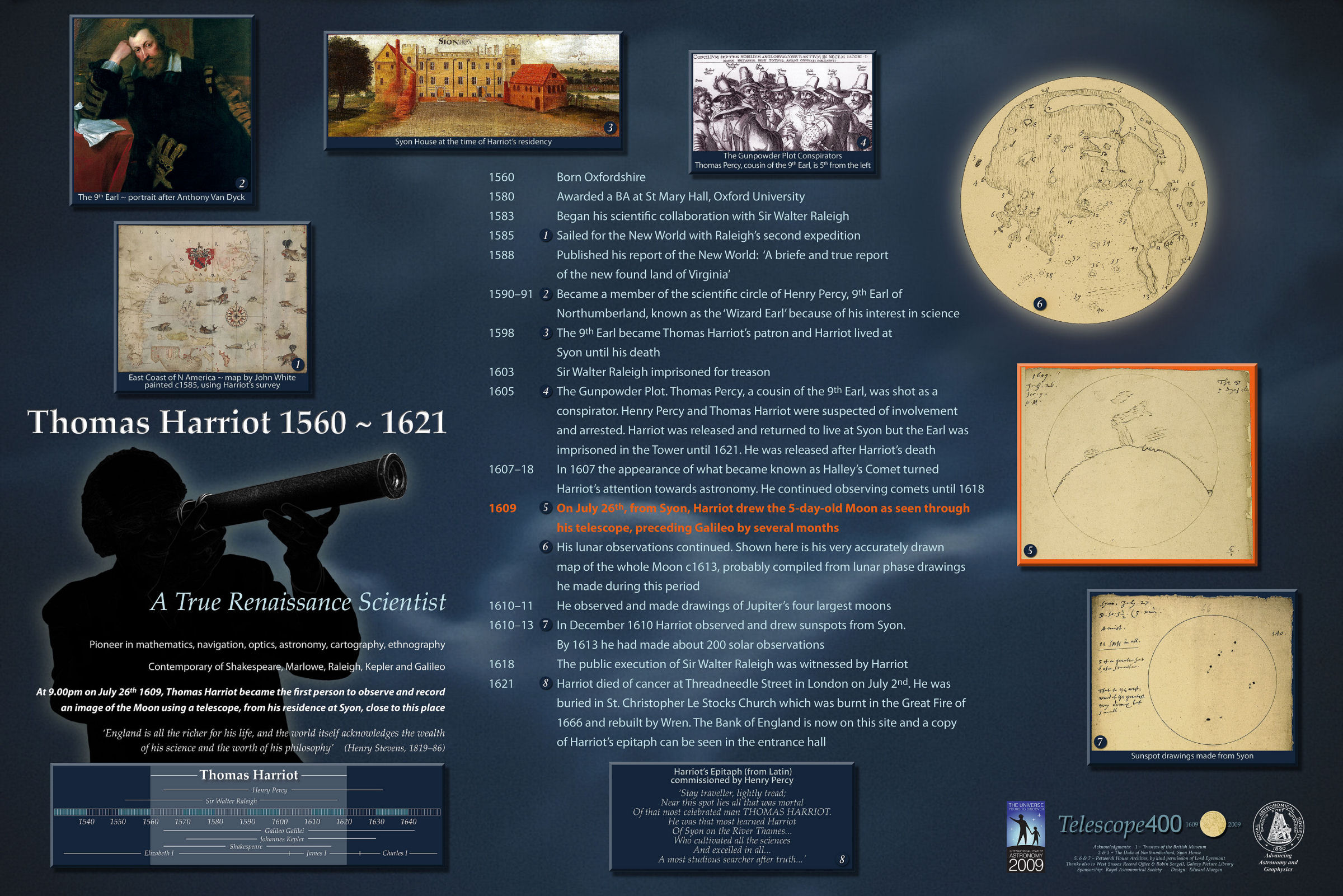 This plaque was erected in July 2009 in the grounds of Syon House (West London) to commemorate the 400th anniversary of Thomas Harriot's drawings of the moon using a telescope. This is generally considered to be the first astronomical use of the Telescope.